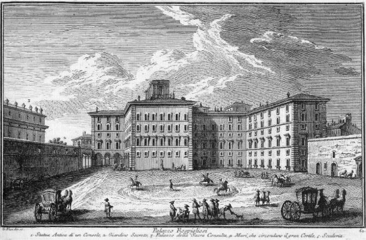 1) Ancient statue of a Roman consul; 2) Secret Garden (aka Il Teatro); 3) Palazzo della Consulta; 4) Walls around the courtyard; 5) Stables.